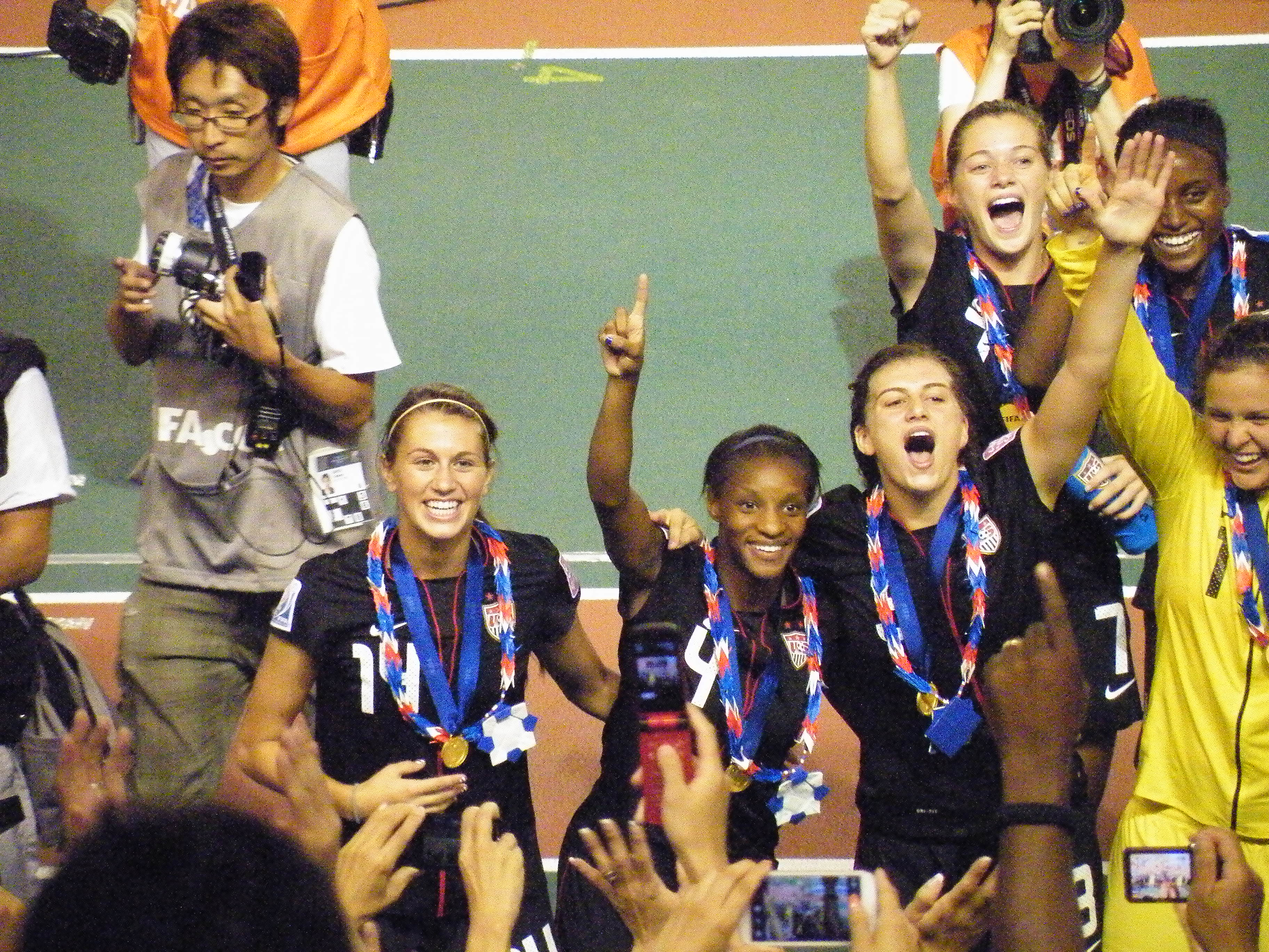 FIFA U-20 Women's World Cup 2012 Awards Ceremony; Players from left to right: 14—Mandy Laddish, 4—Crystal Dunn, 3—Cari Roccaro, 7—Kealia Ohai, 9—Chioma Ubogagu, 1—Bryane Heaberlin (GK)